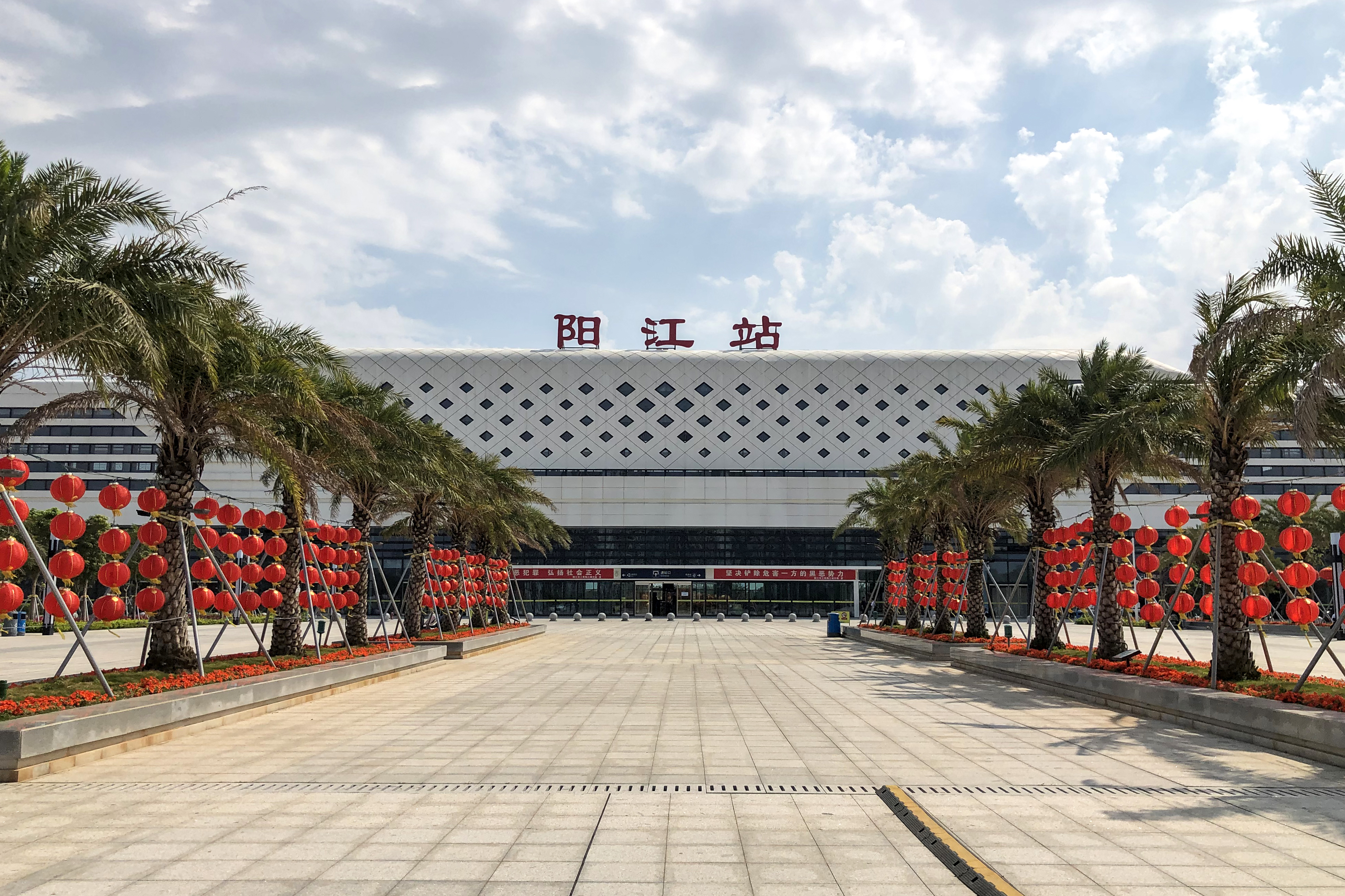 No full view can be provided due to palm.